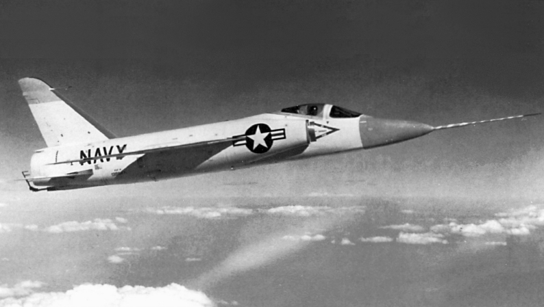 A U.S. Navy Grumman F11F-1F Super Tiger prototype (BuNo 138646) in flight over Edwards Air Force Base in October 1956. The probe in the back of the aircraft was installed to determine the best contours of the aft fuselage.